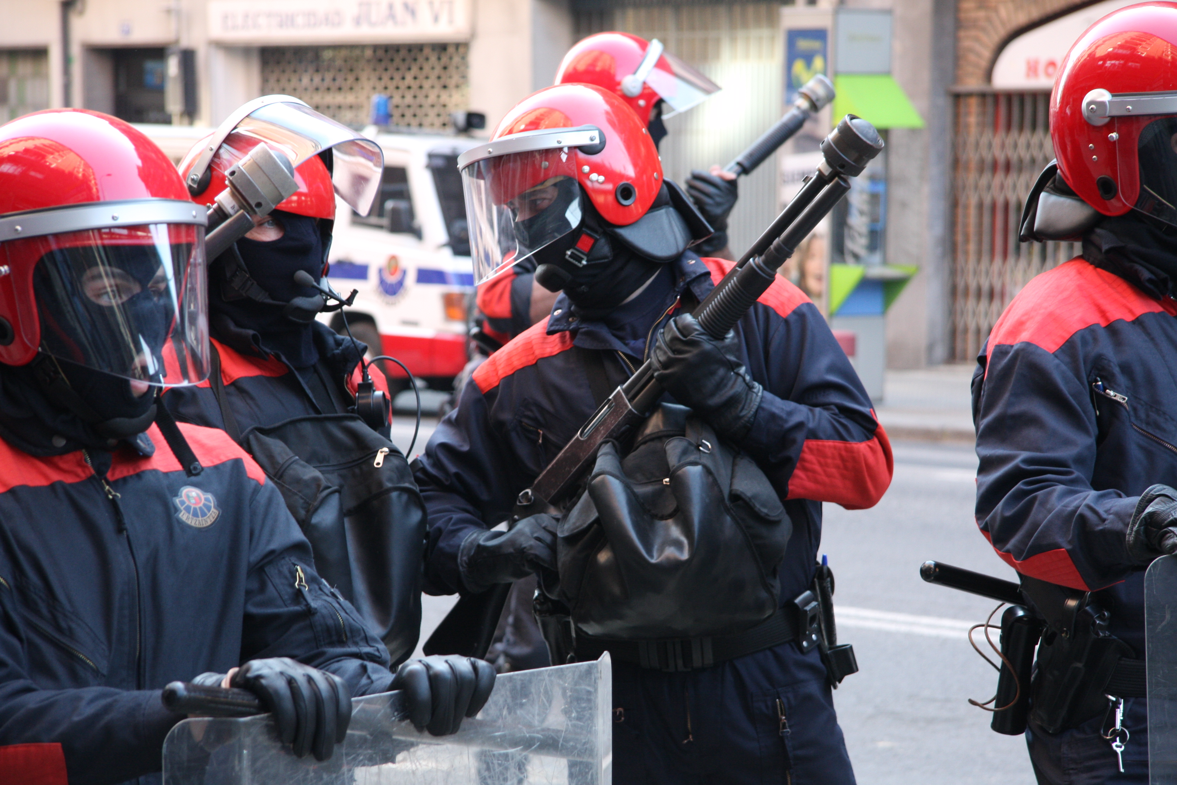 Basque police with rubber bullet guns against riots.